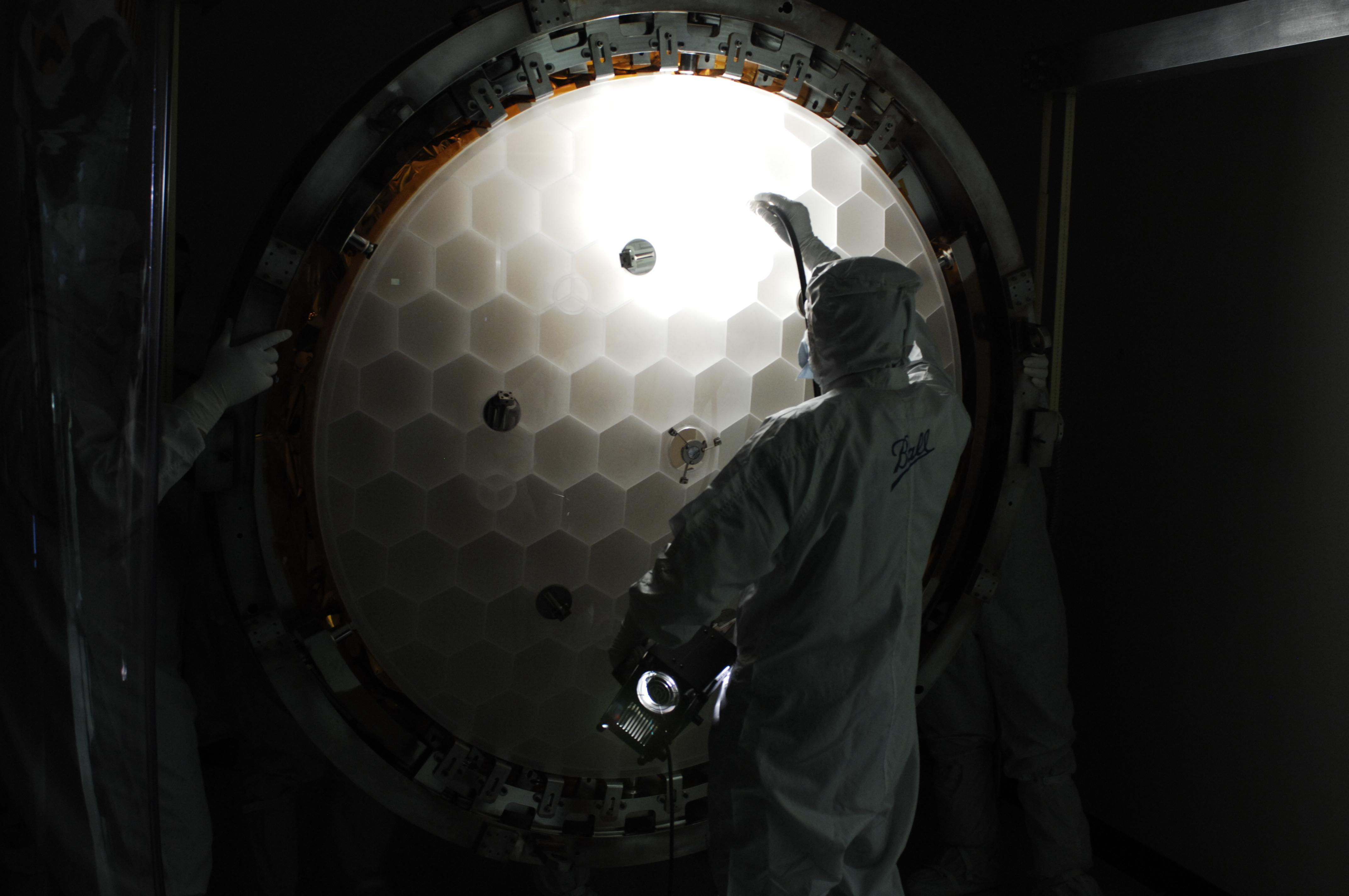 Technicians from Ball Aerospace inspected the honeycomb structure of the Kepler Space Telescope's primary mirror. The mirror has been 86% light-weighted; that is, it only weighs 14% of amount that a solid mirror of the same dimensions would. The mirror blank was made by Corning Glass works out of ultra-low expansion glass, or ULE. The optical polishing of the mirror was performed by Brashear LP. Kepler launched On March 7, 2009, on a 3 1/2 year mission to survey the more than 100,000 sun-like stars in the Cygnus-Lyra region of our Milky Way galaxy. It is expected to find hundreds of planets the size of Earth and larger at various distances from their stars. There is now clear evidence for substantial numbers of three types of exoplanets; gas giants, hot-super-Earths in short period orbits, and ice giants. The challenge is to find terrestrial planets, especially those in the habitable zone of their stars where liquid water might exist on the surface of the planet.